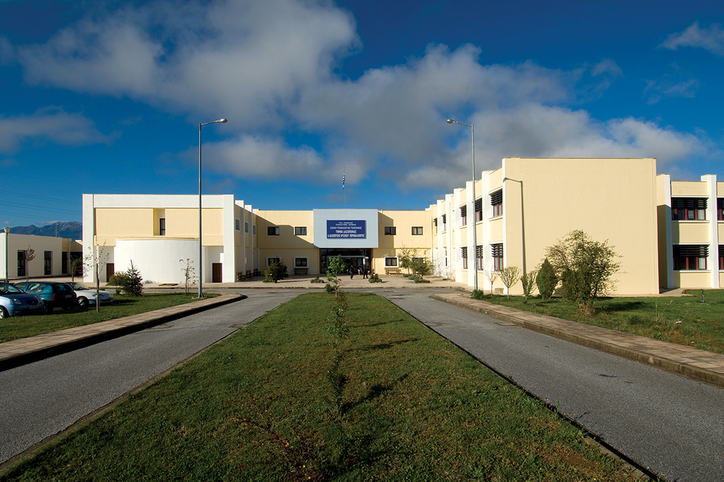 Branch of Drama facilities (entrance).